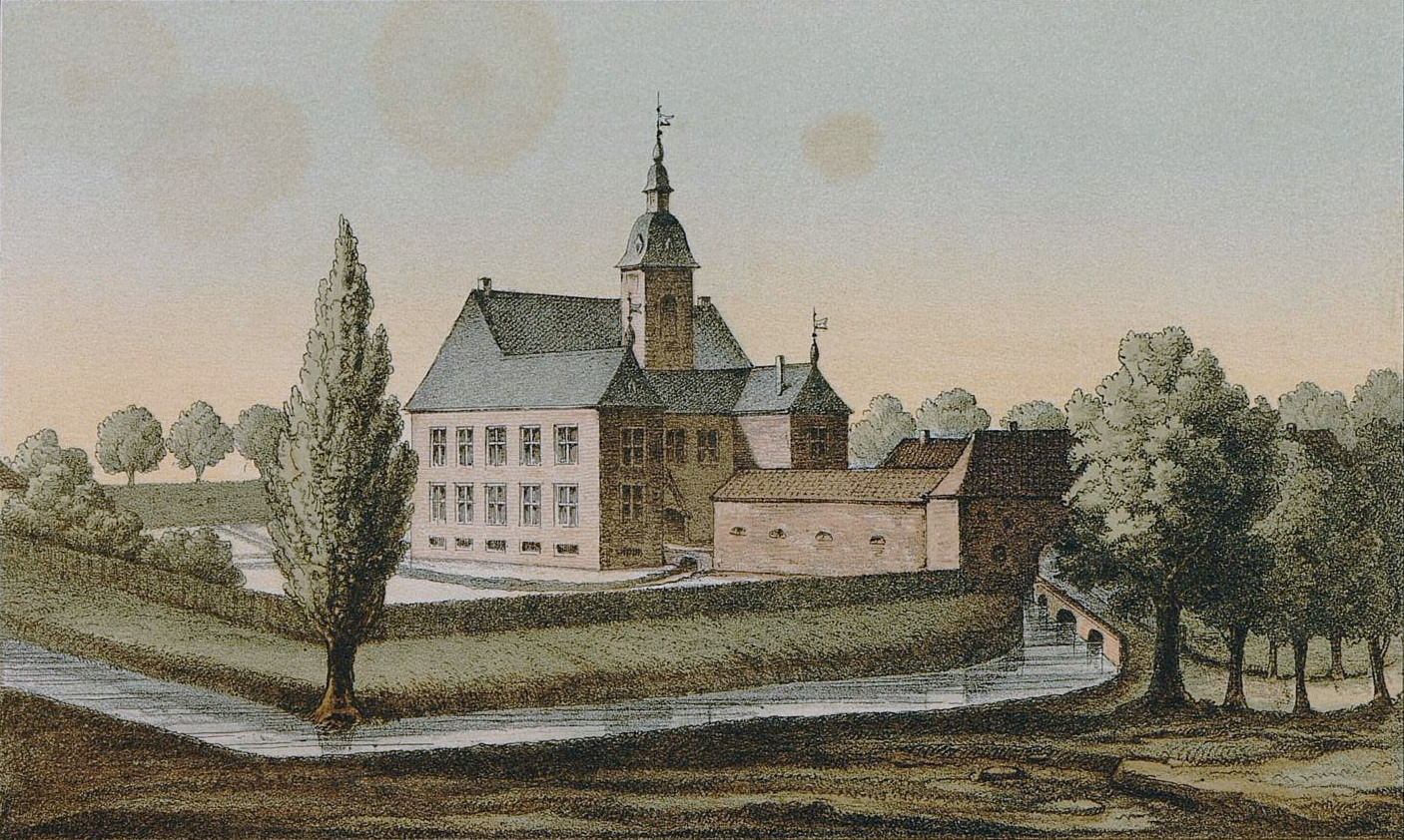 Castle Blijenbeek, old painting